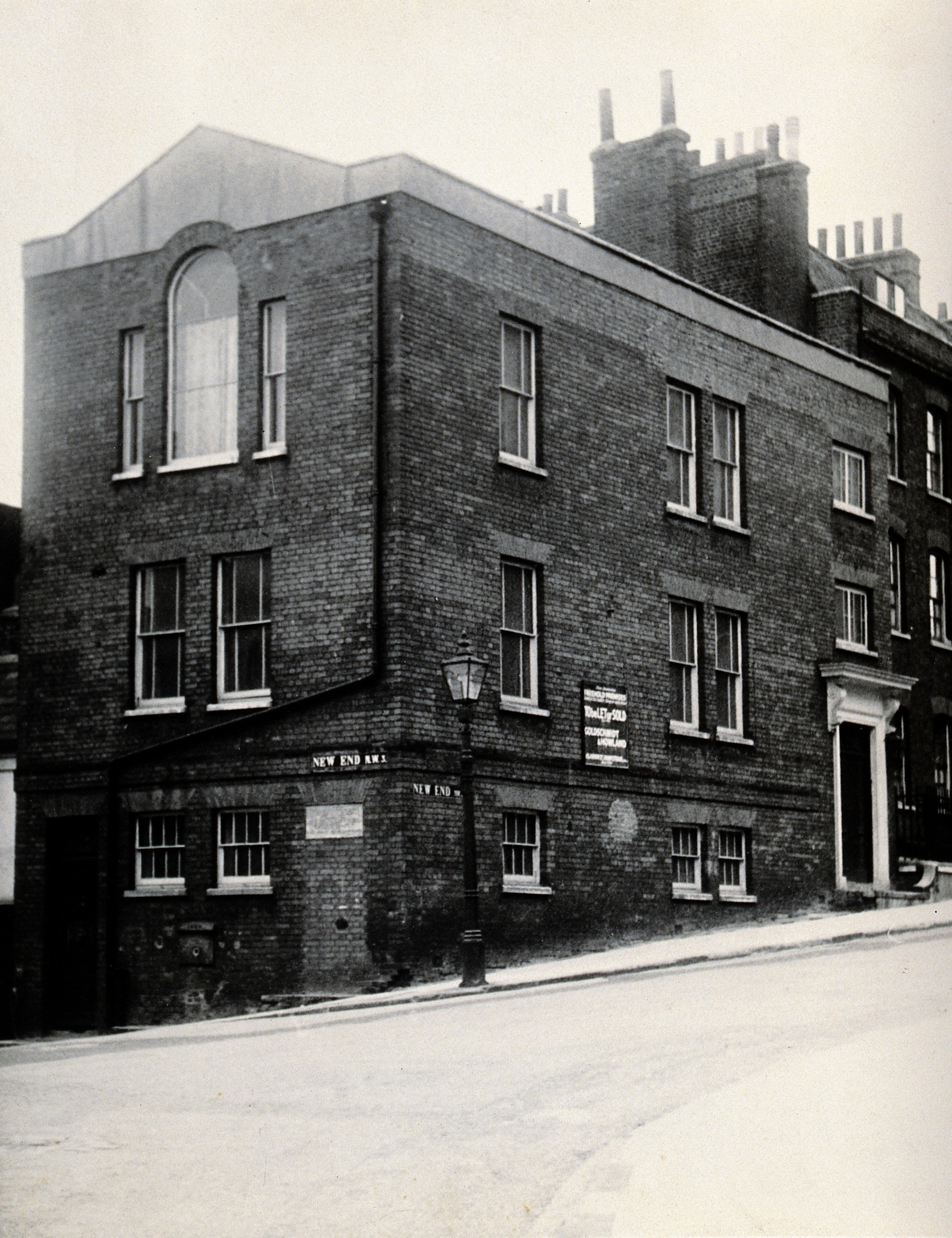 New End Hospital Iconographic Collections Keywords: R. Langston; New End Hospital (Hampstead, London, England)